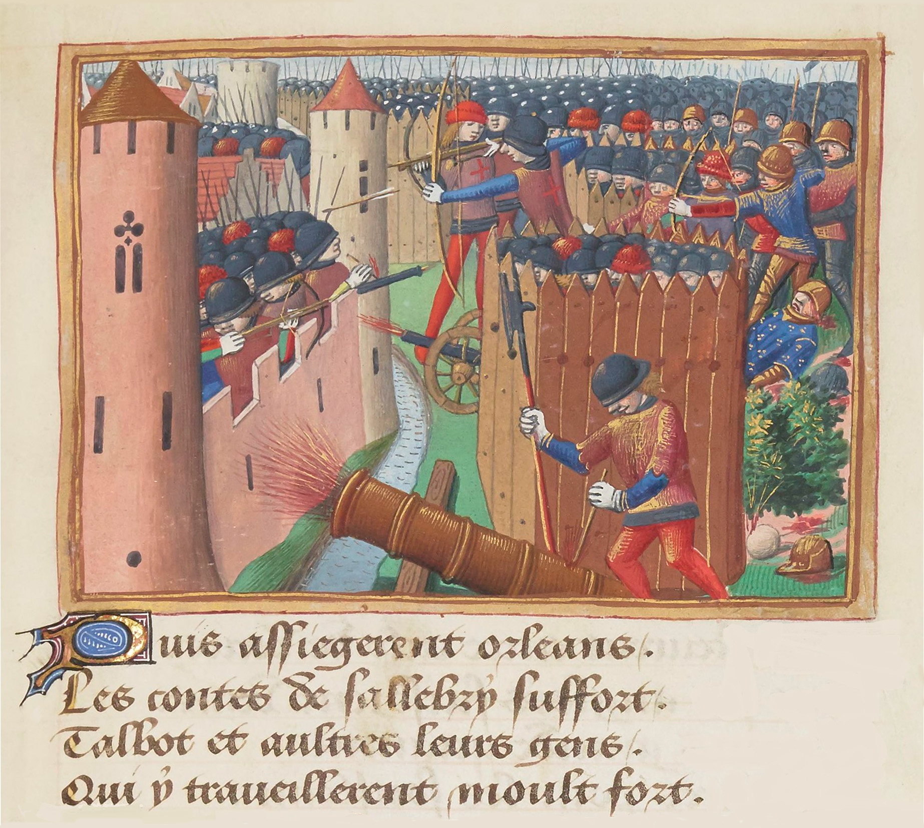 1490s depiction of the Siege of Orleans of 1429. There were claims copied between articles on English language Wikipedia of this being the "oldest Western depiciton of artillery", but this is ostensibly not the case, as plenty of artillery is depicted in Froissart of Louis of Gruuthuse (BnF Fr 2643-6), which is 20 years older. Plenty of artillery is also shown in Konrad Kyeser's Bellifortis of 1405.